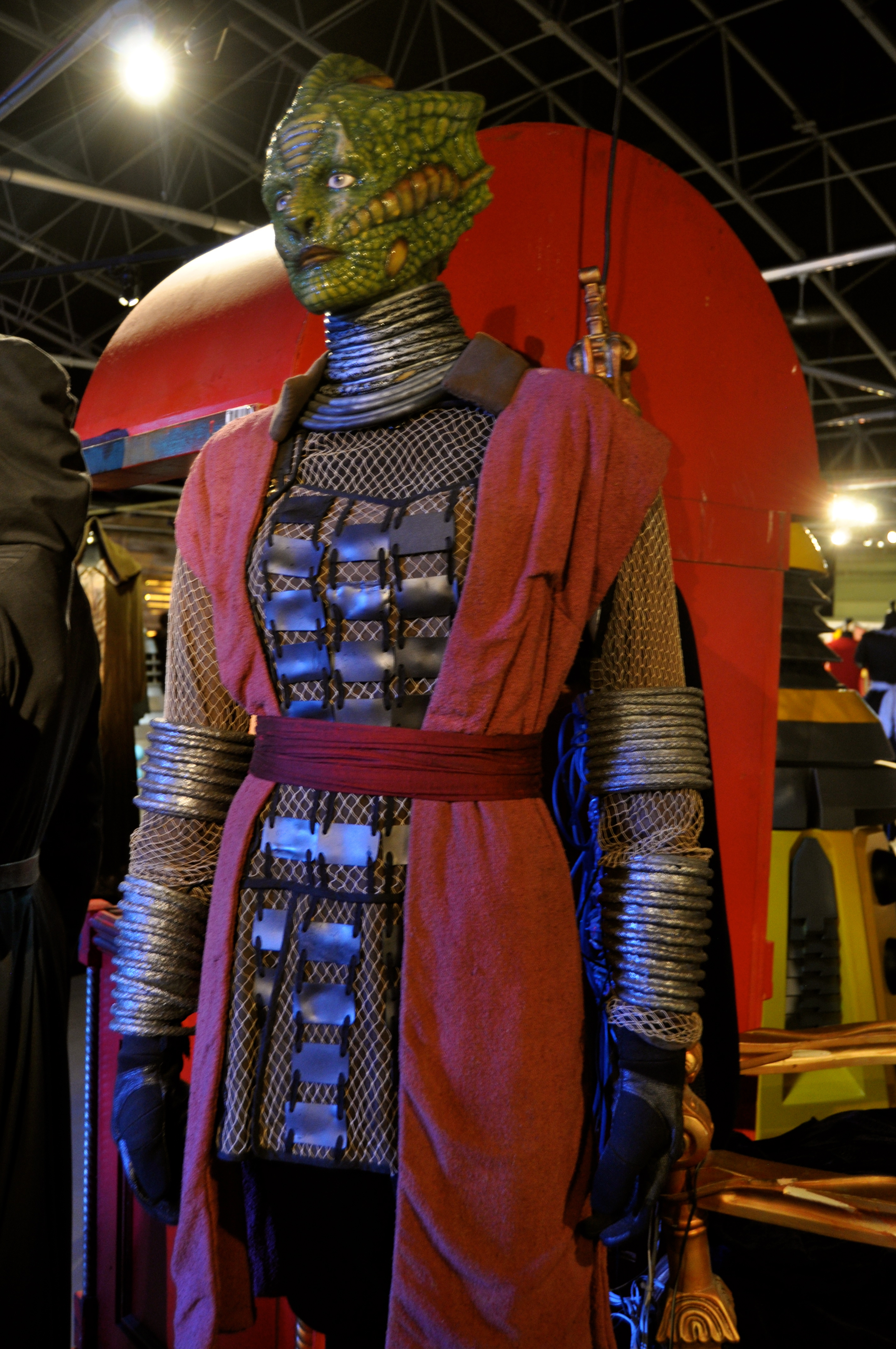 DWE Cardiff Bay, Port Teigr November 2016 Doctor Who Experience